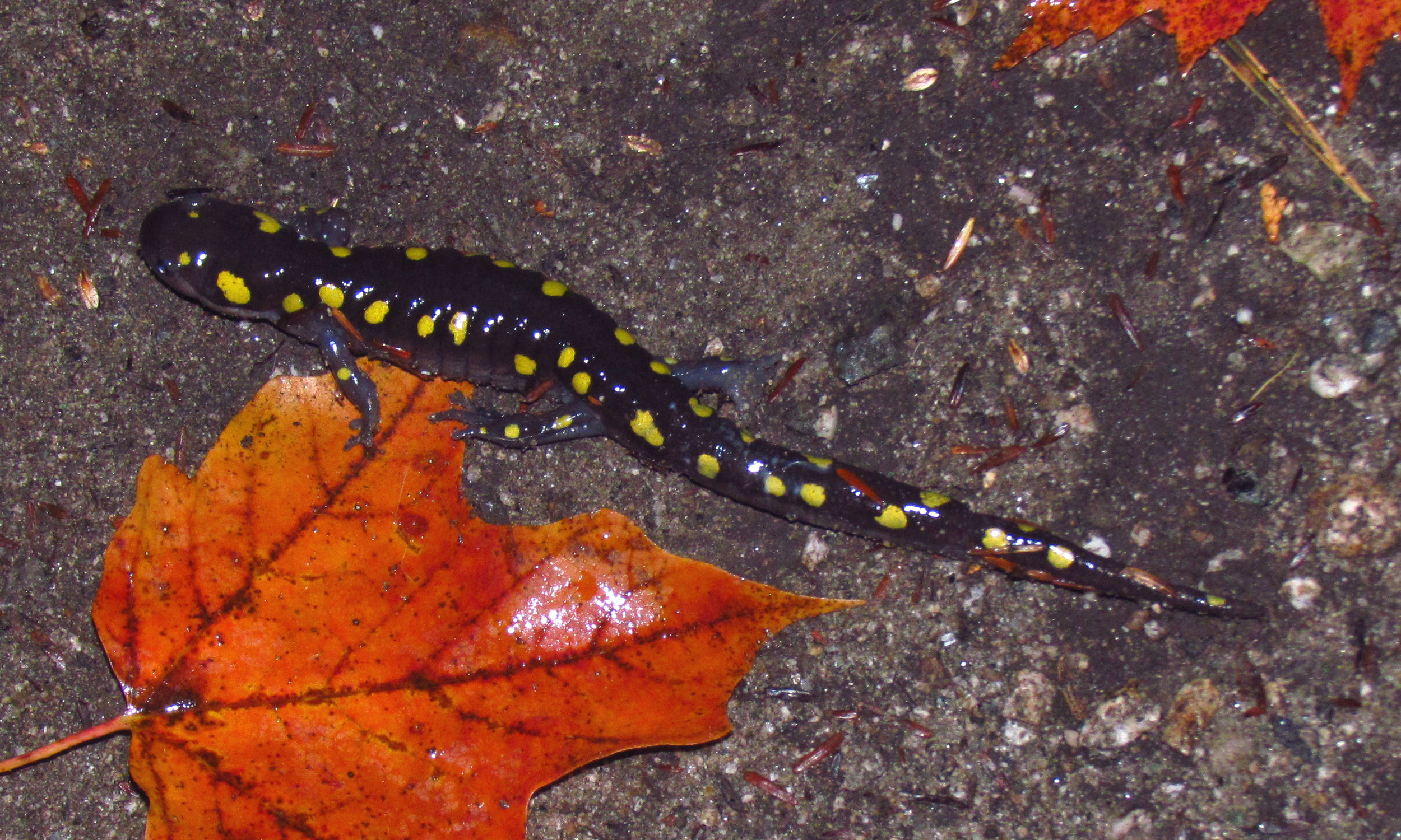 Spotted salamander (Ambystoma maculatum), Cantley, Quebec